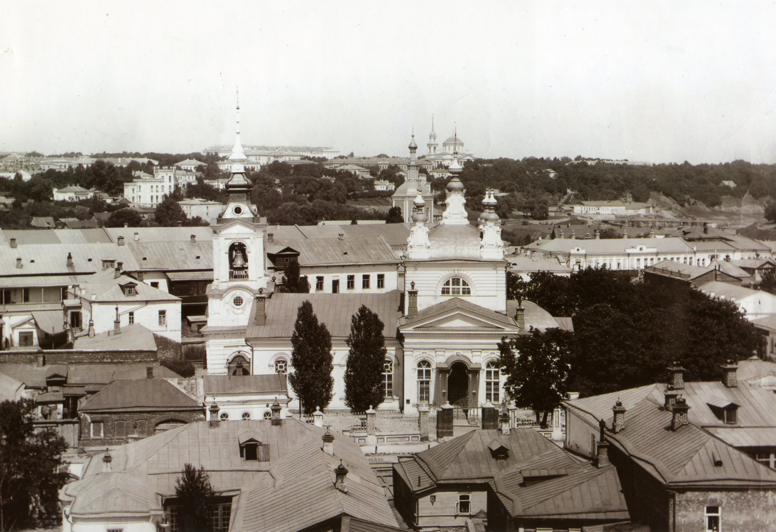 View on central part of Oryol and churches: Nikola Ribniy church, Bogoyavlenskaya church, Petropavlovskiy cathedral.